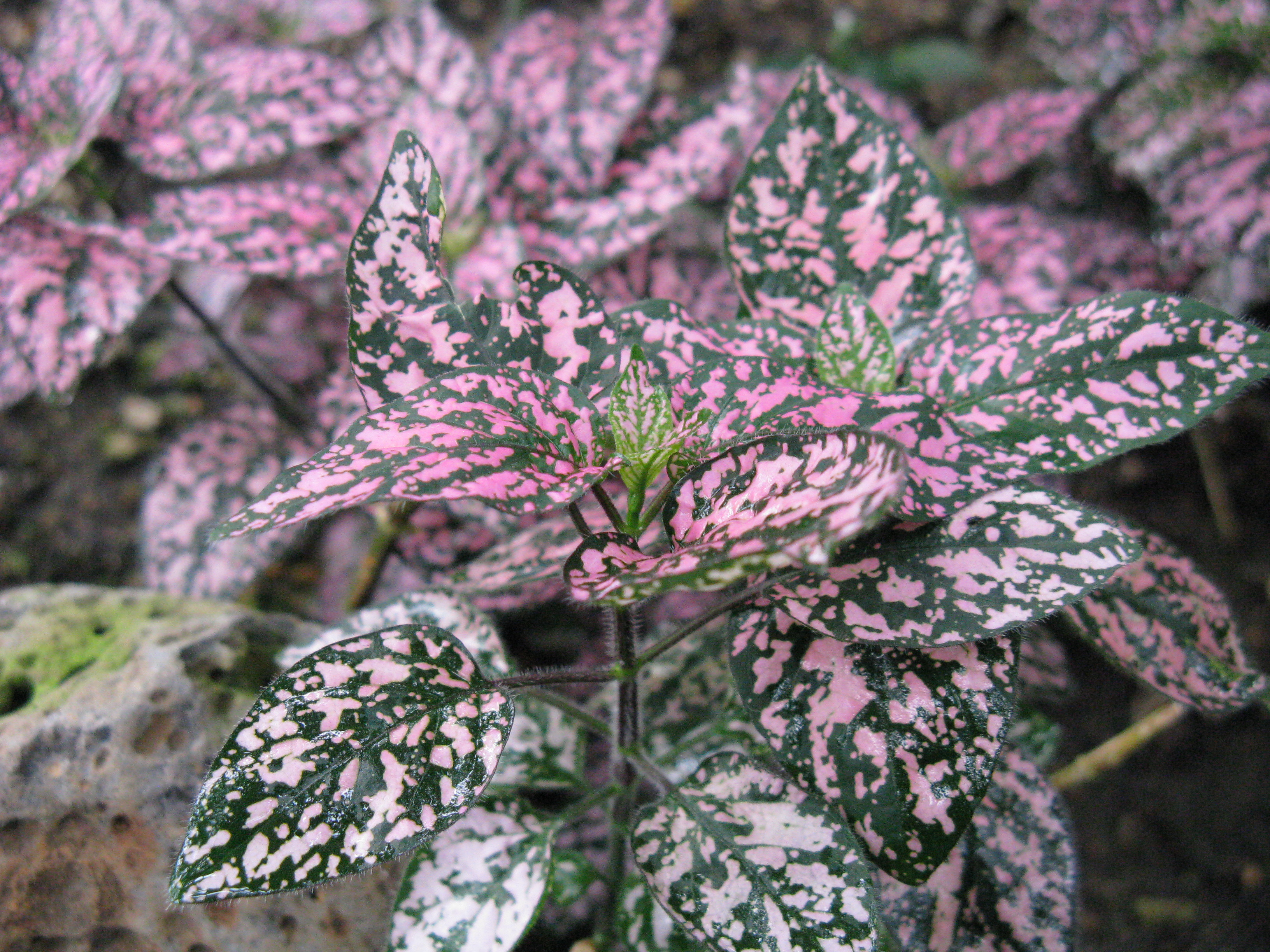 Hypoestes phyllostachya